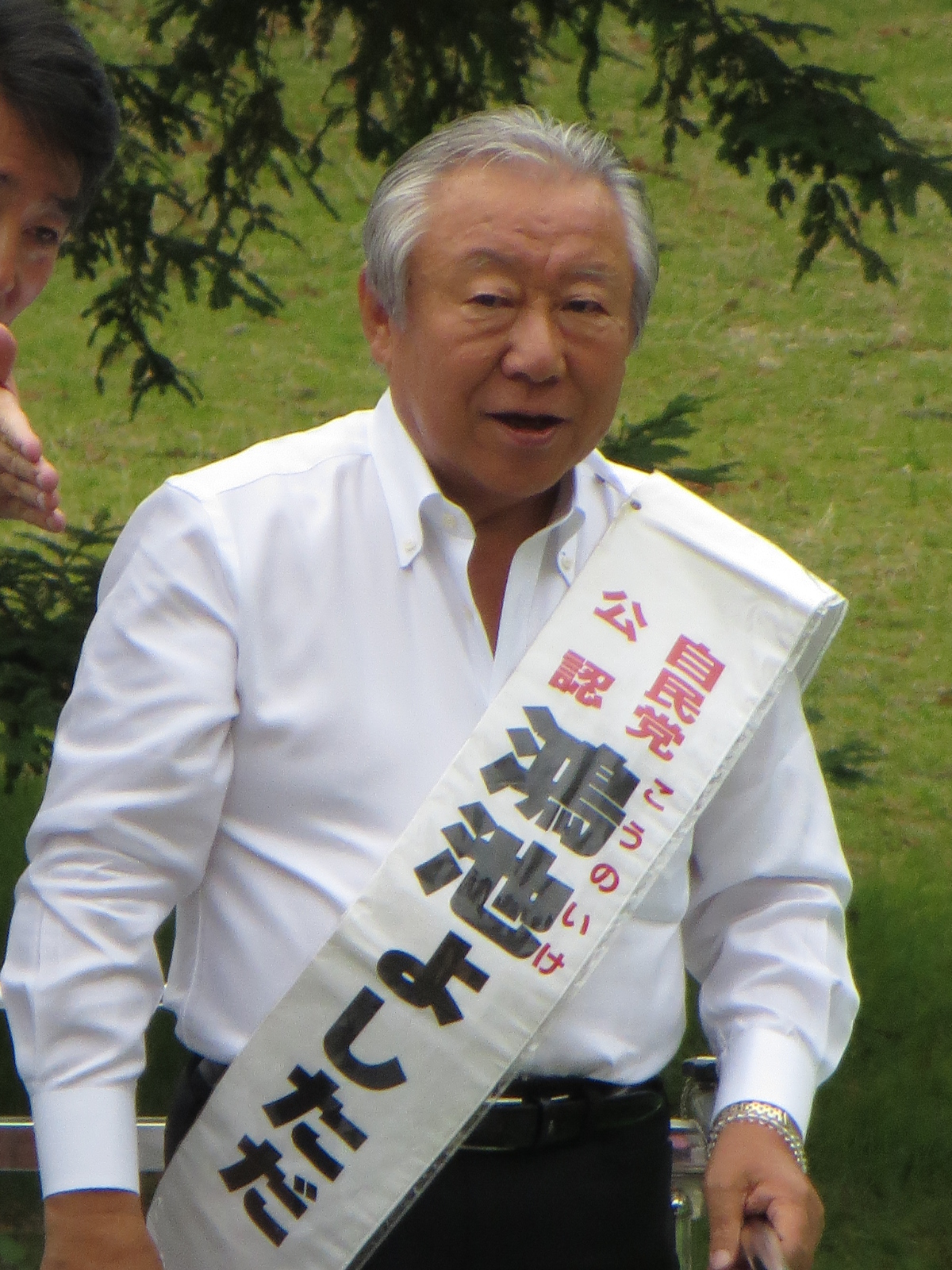 Yoshitada Konoike.